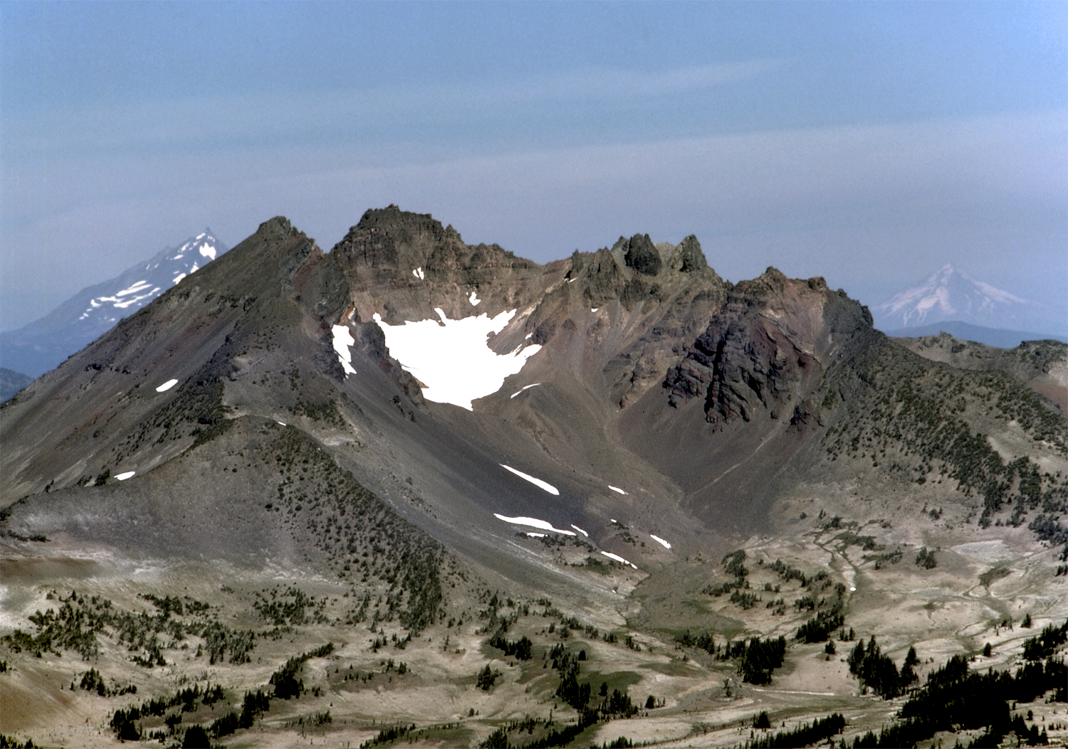 Broken Top viewed from summit of Mt. Bachelor. In far distance are Mt. Jefferson on left and Mt. Hood on right. (Scanned from 35mm Kodachrome 25 slide)